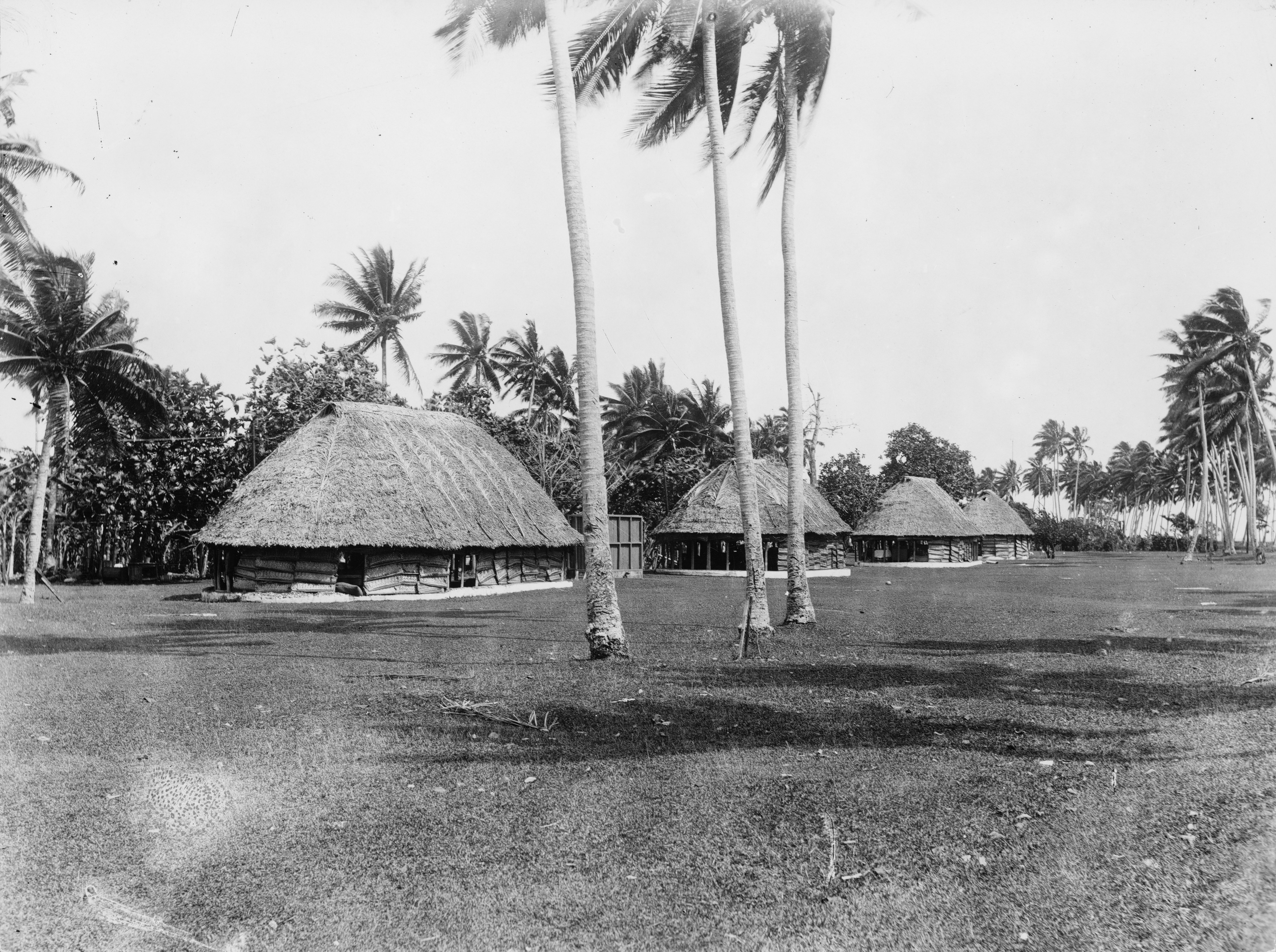 Traditional Samoan fale in Mulinu'u village, Upolu island, Samoa circa 1893 - 1949.